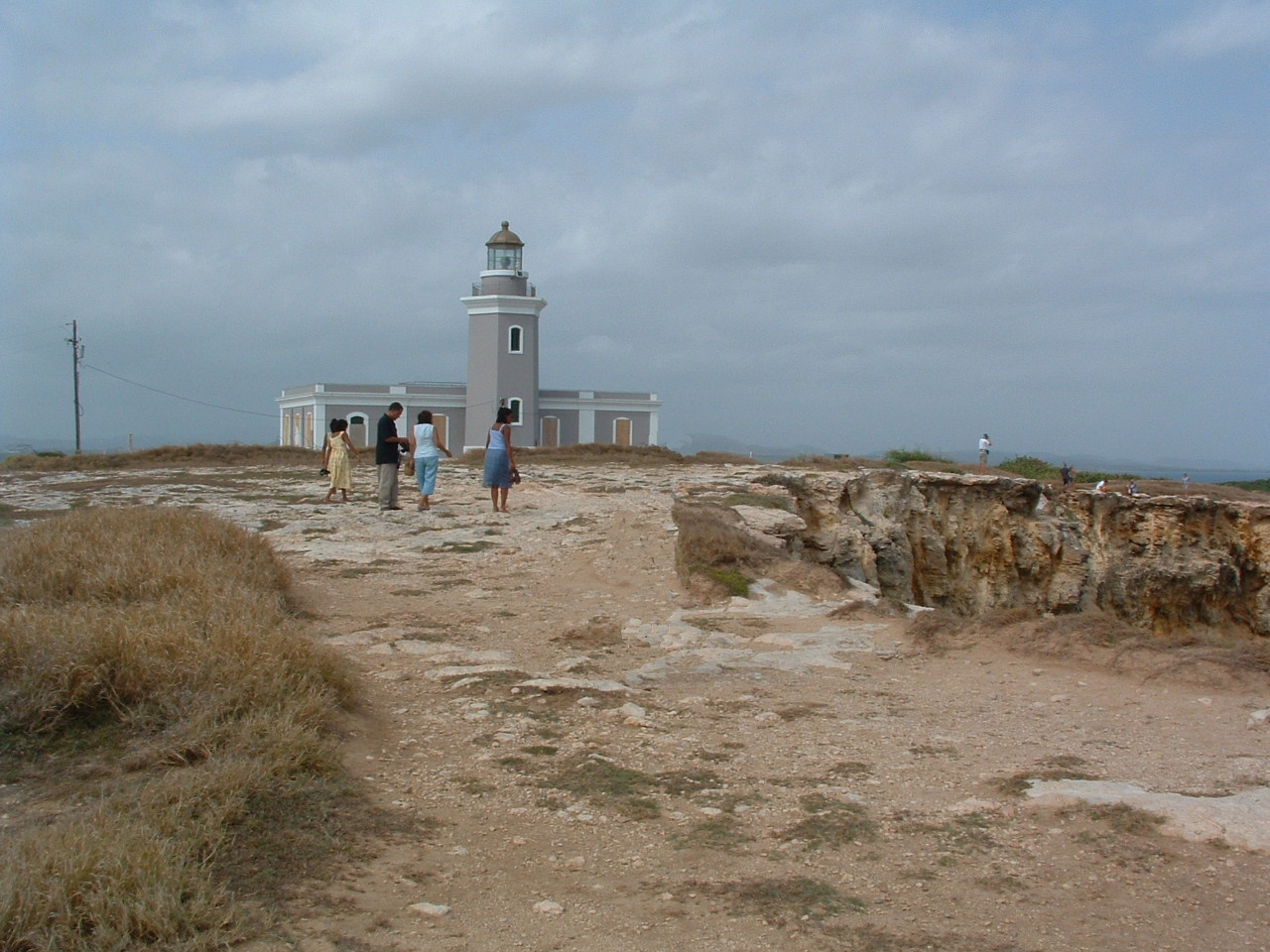 Los Morrillos Lighthouse, Puerto Rico